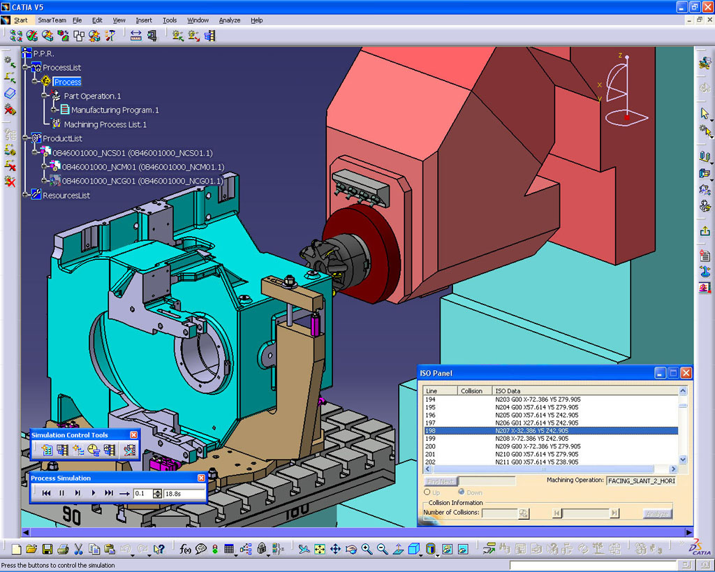 I made the image myself from a screenshot. The full gallery is on our web page at We are Authorized Business Partners with IBM with permission to use all images for marketing purposes.